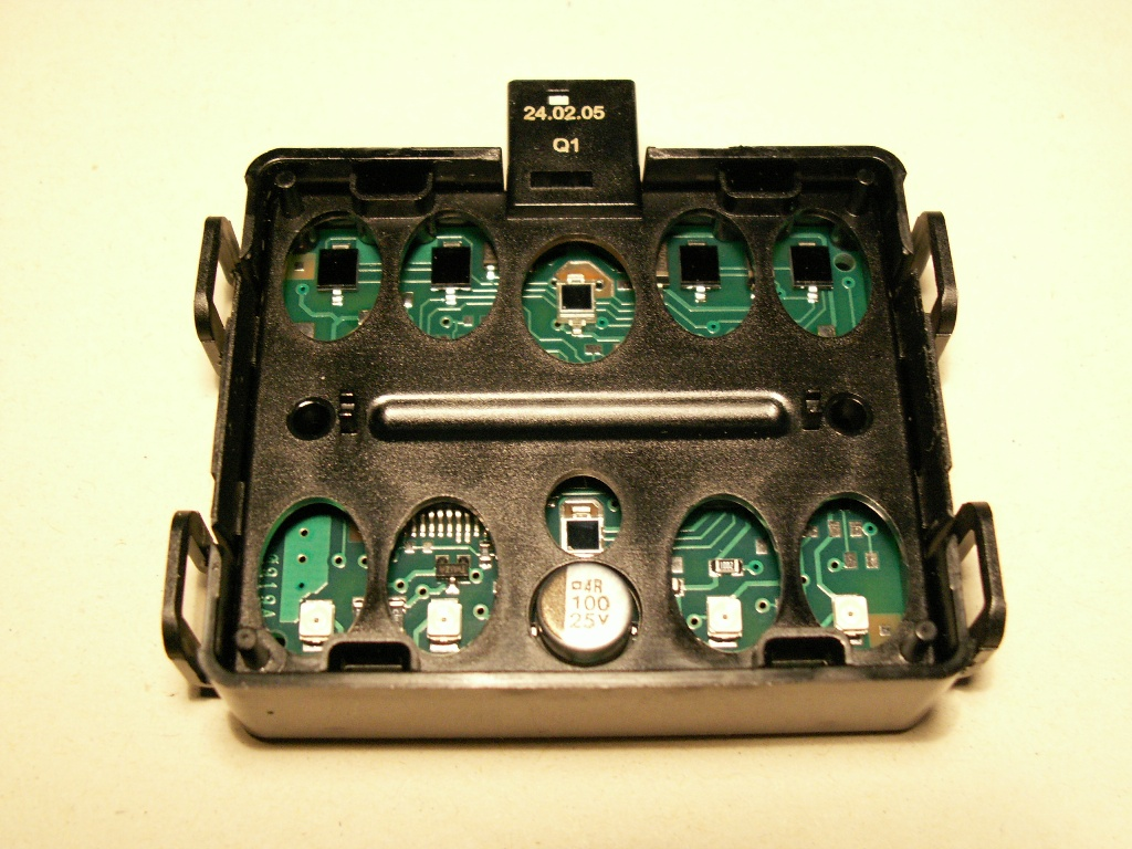 This picture shows a rain sensor for automatic wiping of the windshield of a Mercedes-Benz car